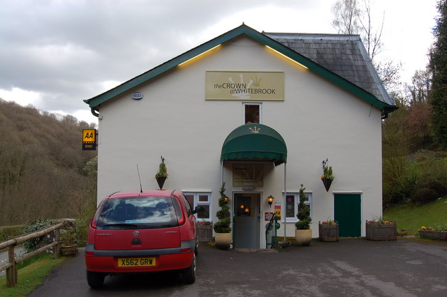 The Crown at Whitebrook This small hotel far off the beaten track in rural Monmouthshire close to the Wye valley at Whitebrook is also home to one of only two Michelin starred restaurants in the whole of Wales (the other is in North Wales at Pwllheli).